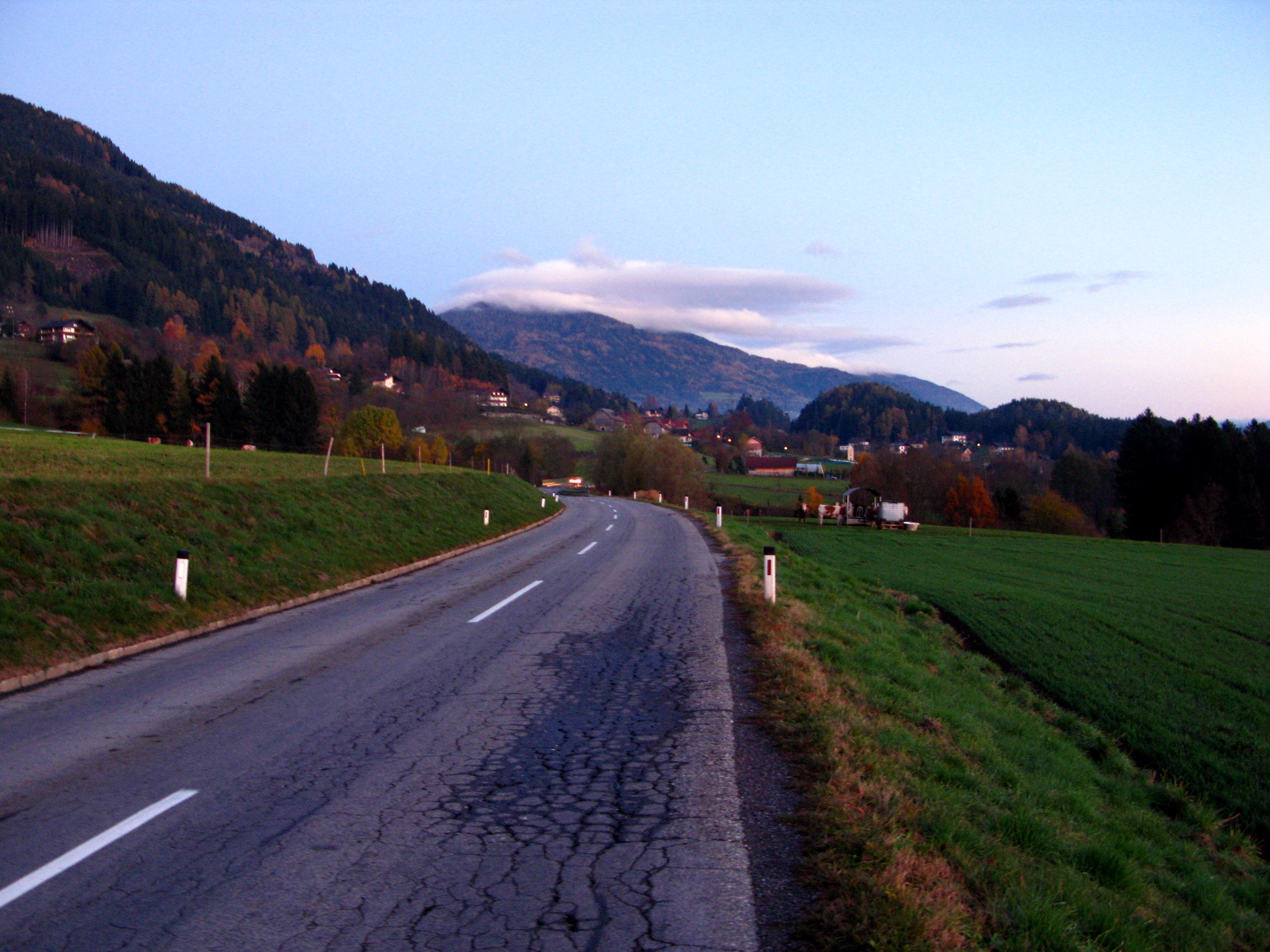 Village Lammersdorf is situated on Millstätter Berg near Lake Millstatt, district Spittal an der Drau in Carinthia / Austria / EU.